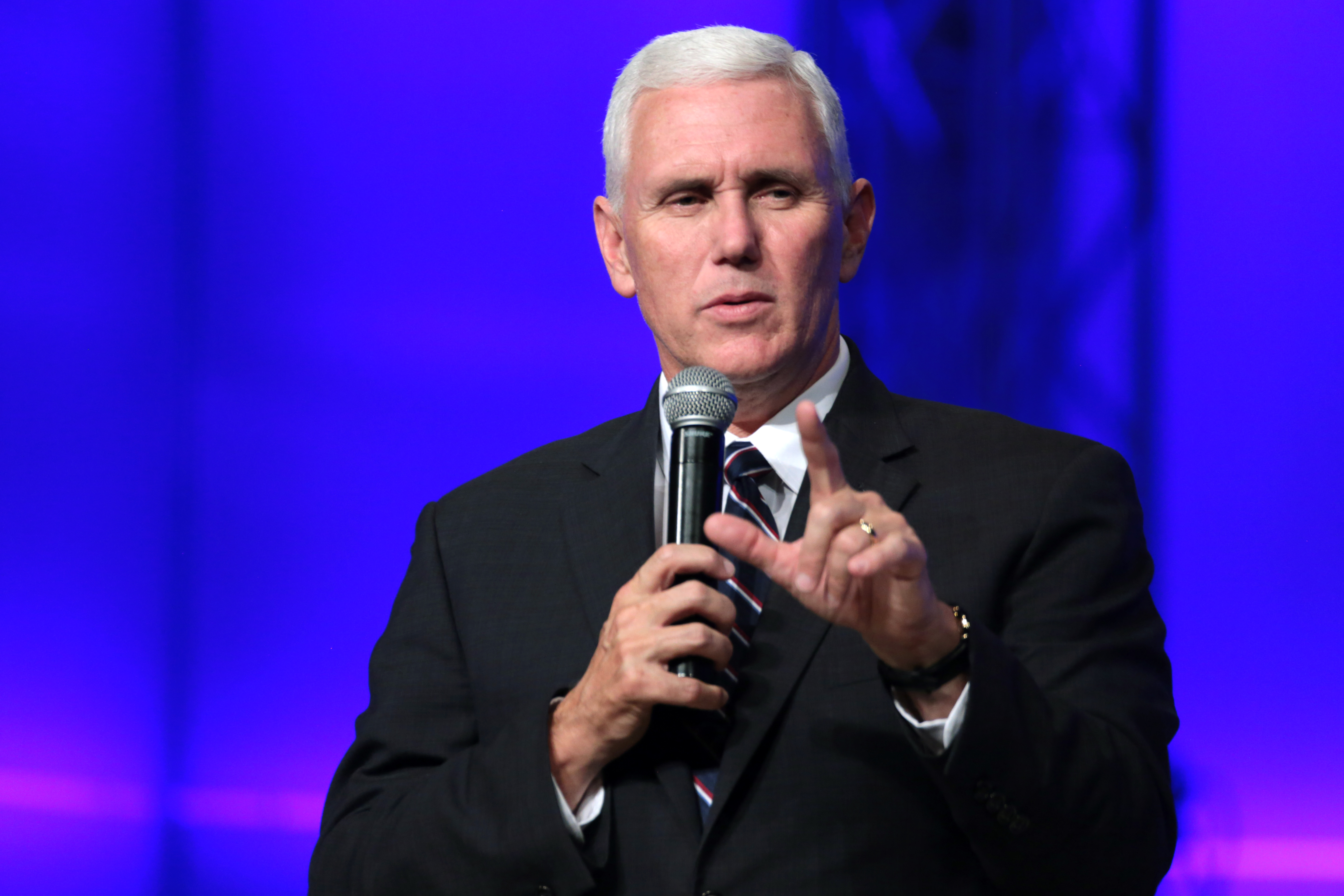 Governor Mike Pence speaking with supporters at a campaign rally and church service at the Living Word Bible Church in Mesa, Arizona.